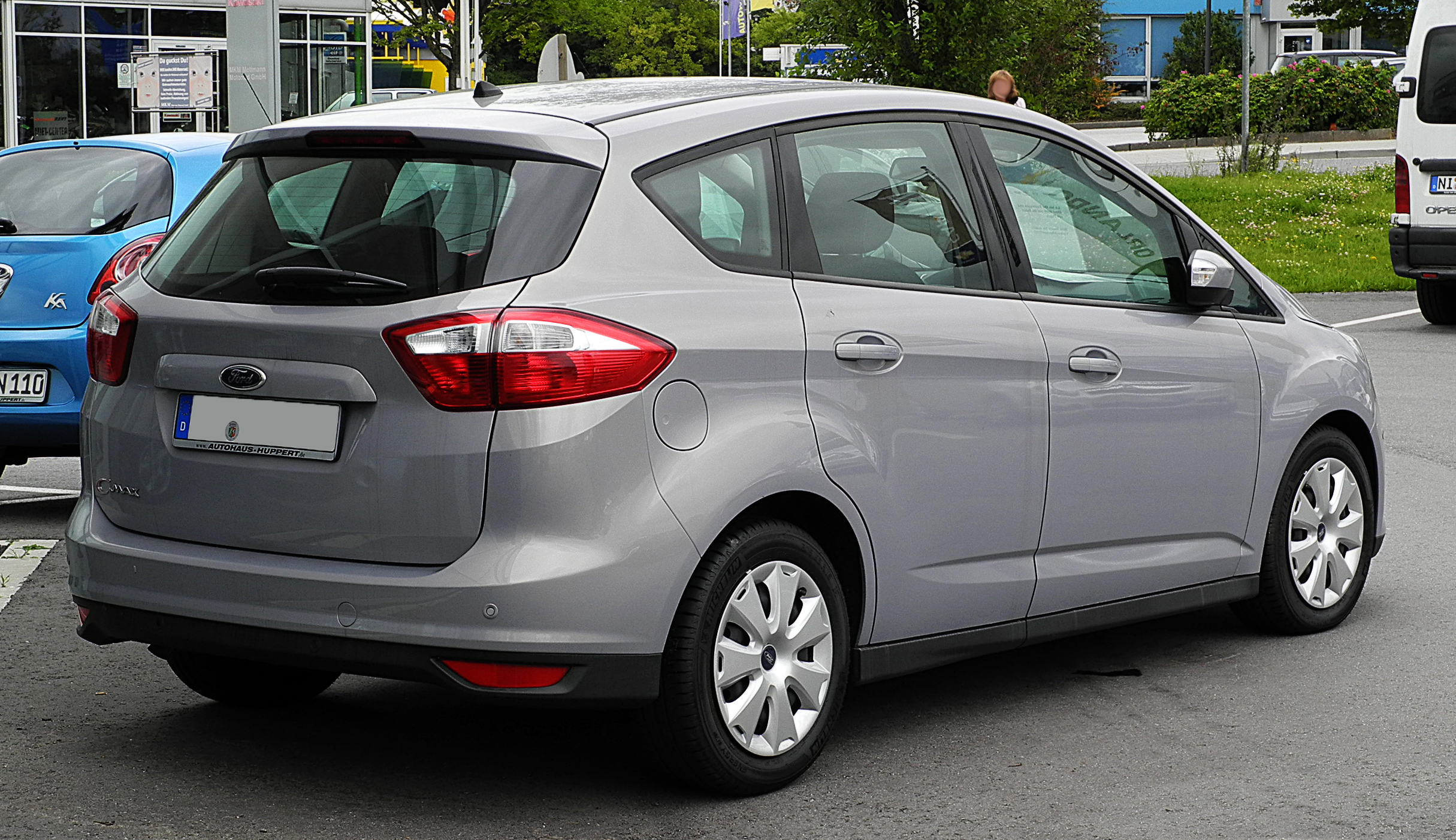 Ford C-Max 1.6 TDCi Trend (II)